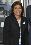 Marshallese President Hilda Heine